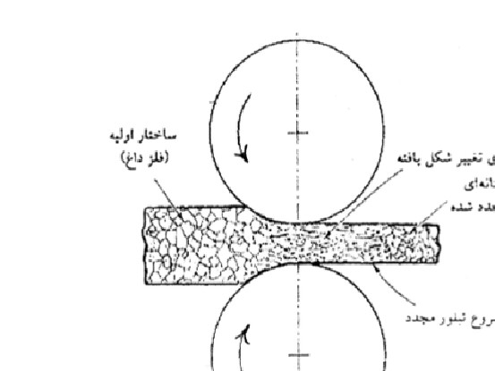 نورد گرم